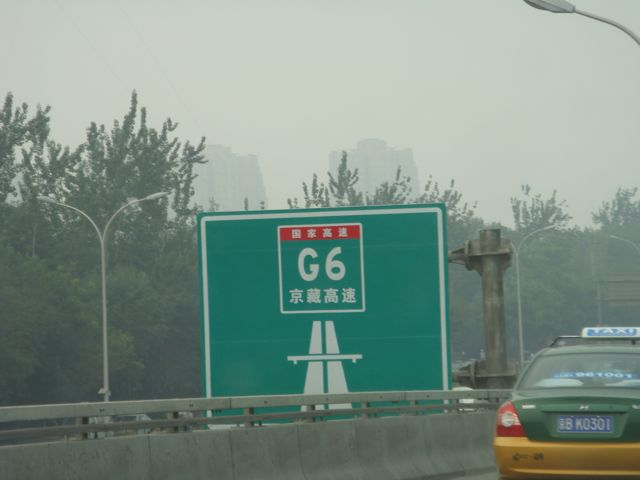 G6 (Jingzang Expwy) start sign leaving Beijing